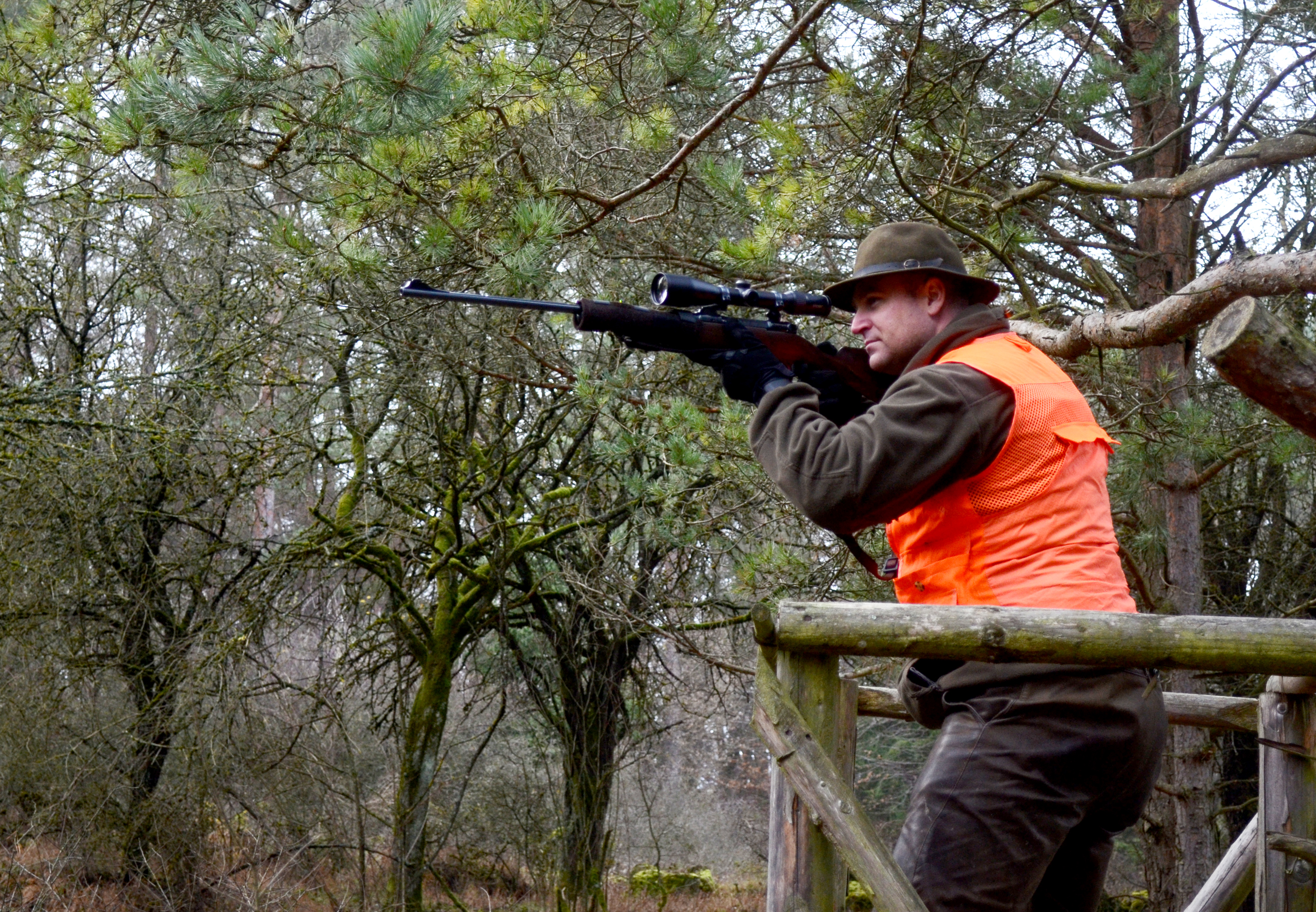 U.S. Army Sgt. 1st Class Daniel Normington, originally from Sedona, Ariz., participates in the German-American Partnership Hunt in the Joint Multinational Readiness Center's Hohenfels Training Area, Hohenfels, Germany, Dec. 14, 2017. The annual hunt is an important part of ecological sustainability in the area and fosters international relationships. (U.S. Army photo by Staff Sgt. David Overson)